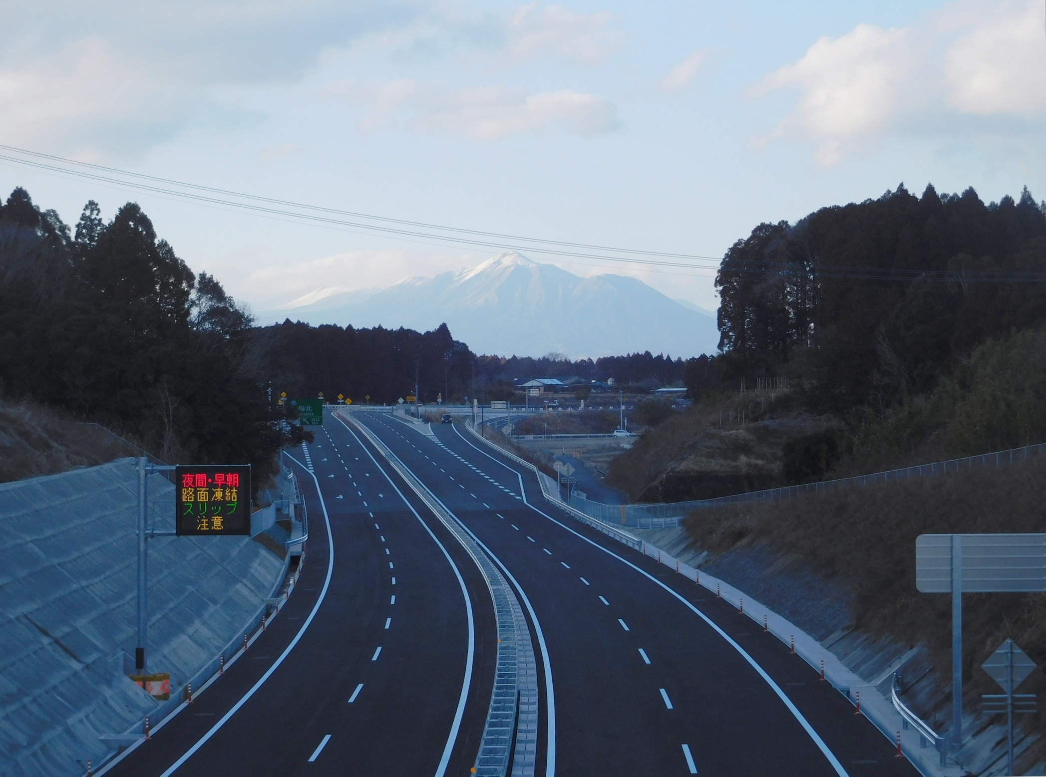 Miyakonojo - Shibushi Road (Umekita-cho, Miyakonojo City, Miyazaki Prefecture, Japan)